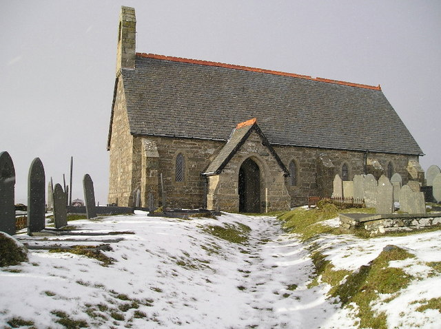 Eglwys Llandecwyn. Diwrnod Dewi Sant